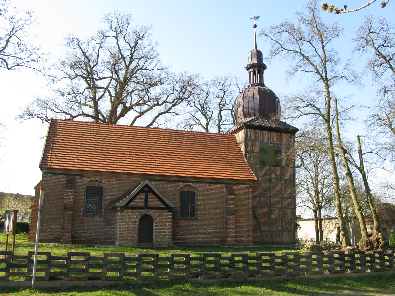 Church in Greven, Mecklenburg-Vorpommern, Germany